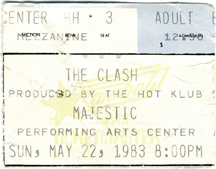 The Clash concert ticket from May 22, 1983.